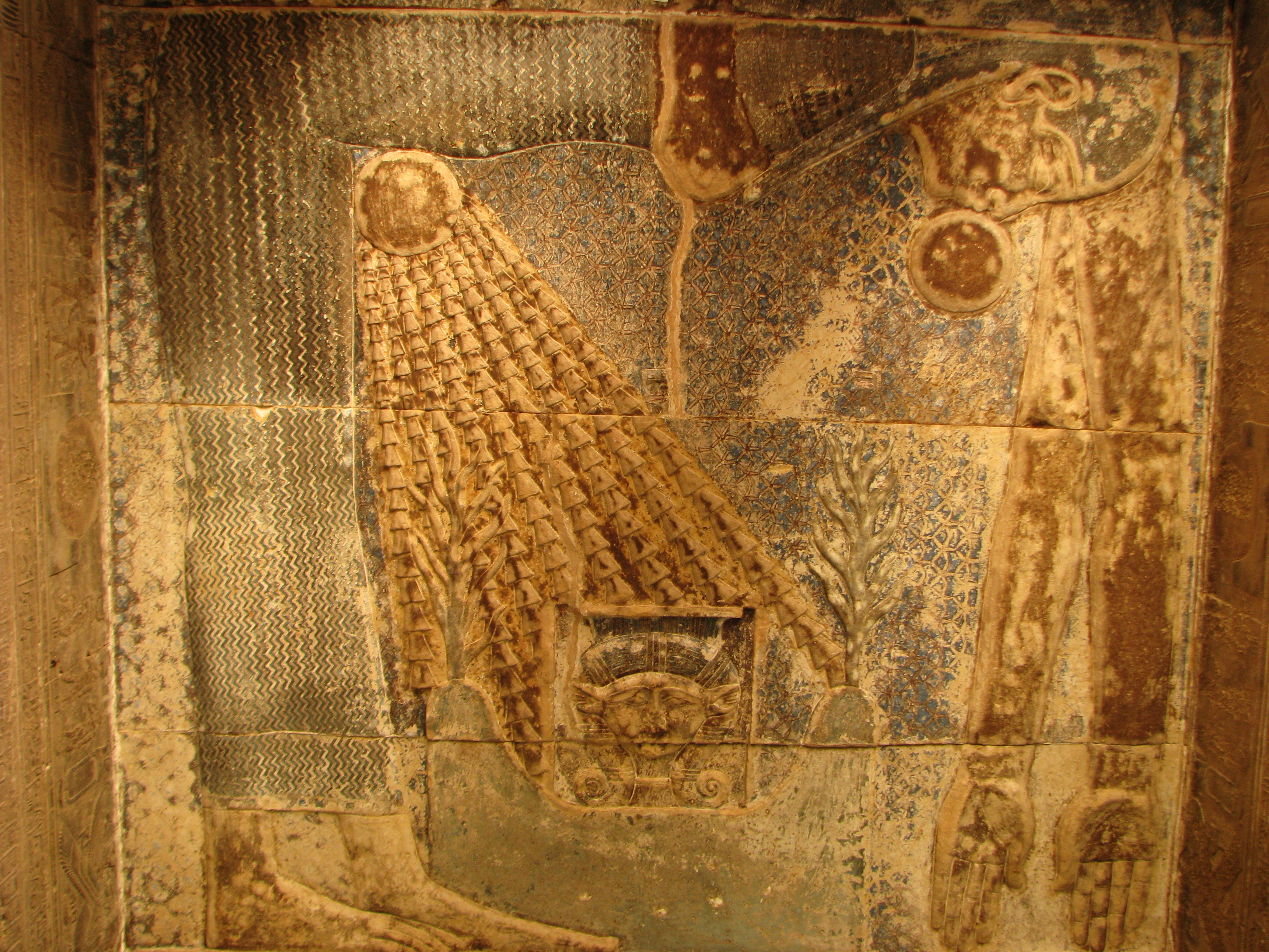 Ptolemaic depiction of Goddess Nut at Dendera, Egypt. This relief is located on the ceiling of Nut Chapel. It shows as Nut swallows Re (the Sun) every evening, and bore again every morning.